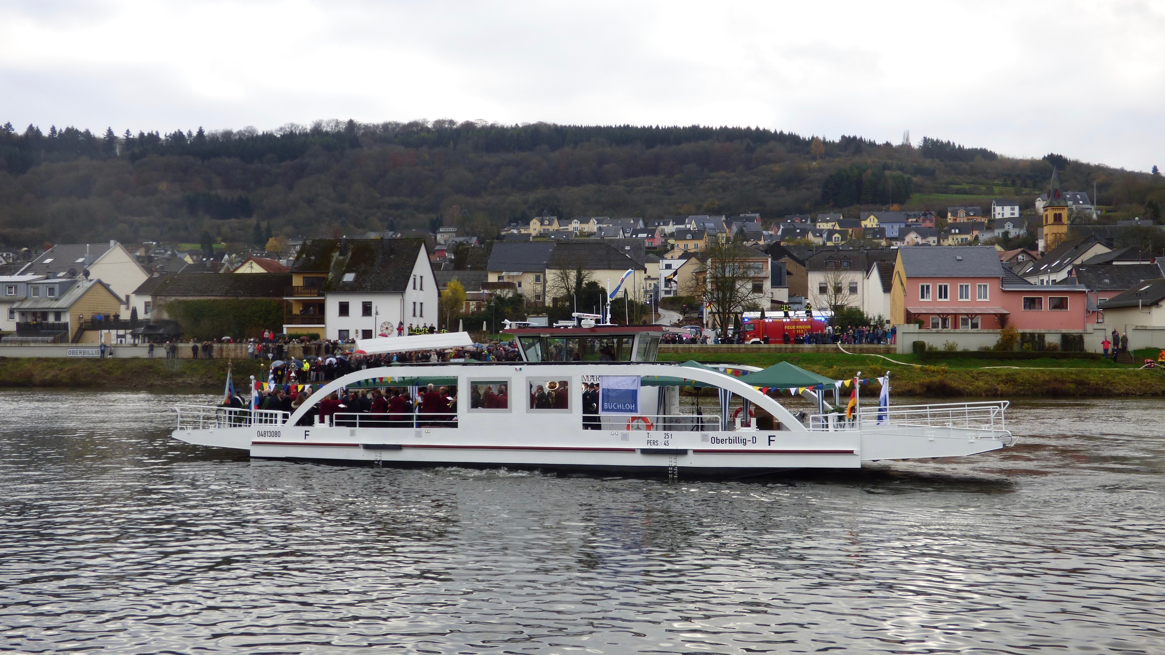 1. offiziell Fahrt vun Mäertert op Oberbillig